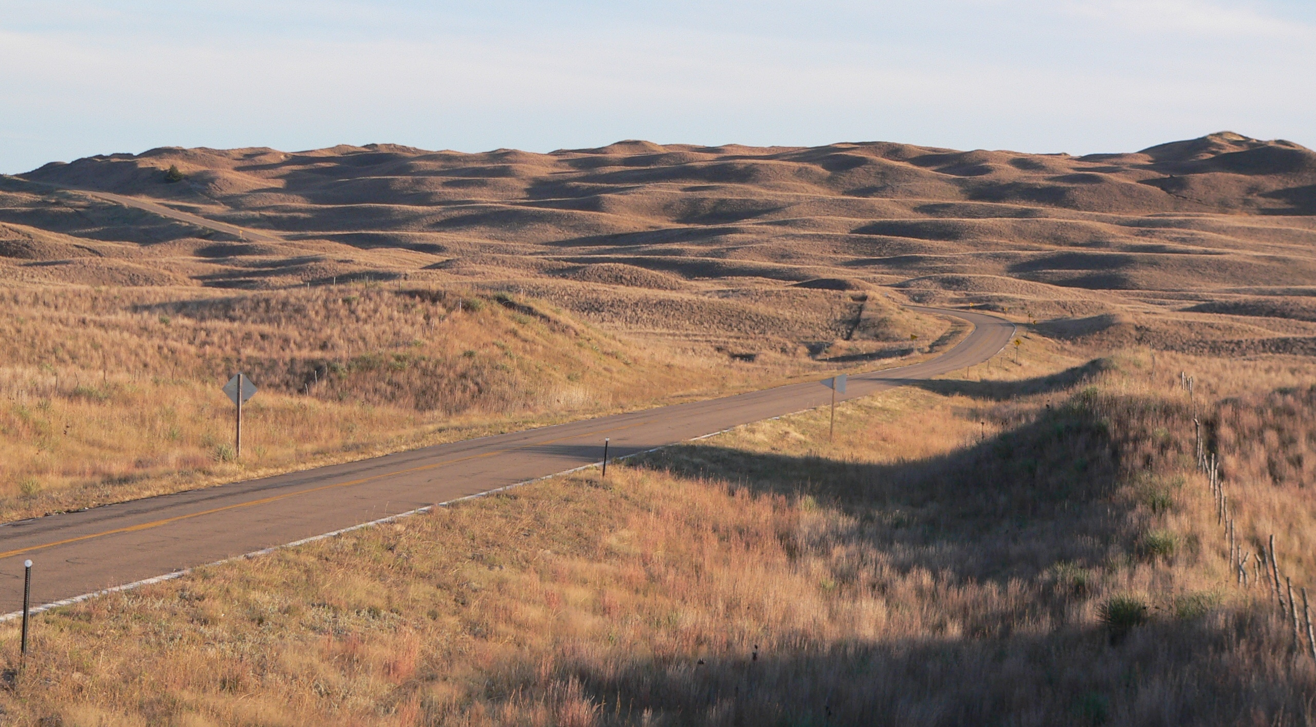 Nebraska Sandhills in Hooker County, Nebraska, seen from Nebraska Highway 97 south of the Dismal River.